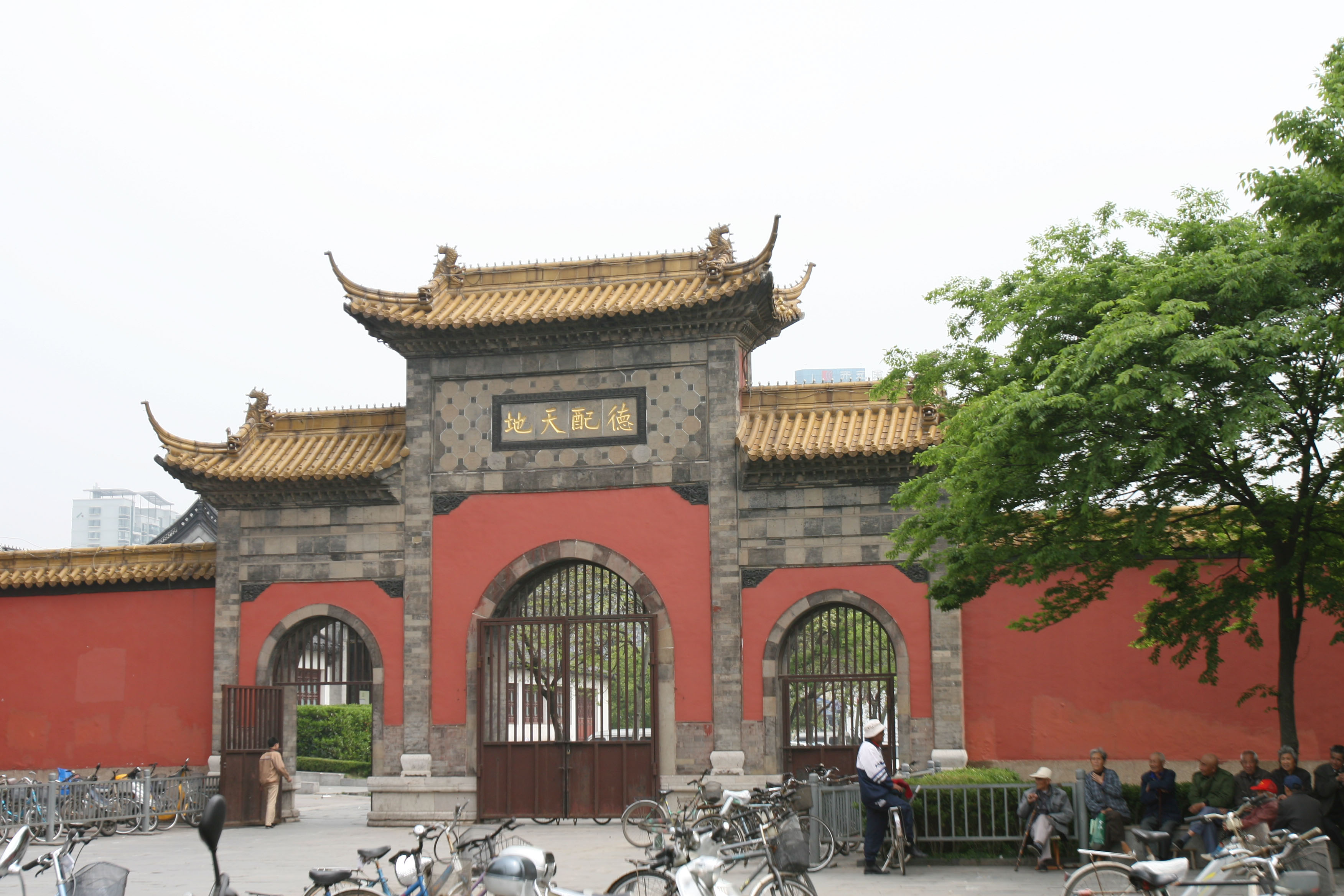 ChaoTianGong's side Gate